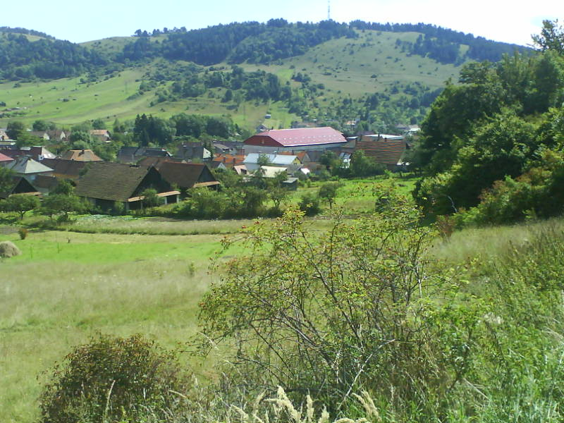 Village Likavka